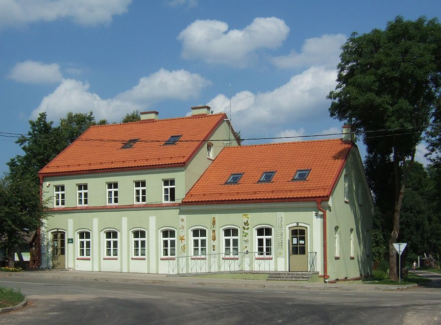 Regional Park Visitor Center in Salakas (Lithuania)